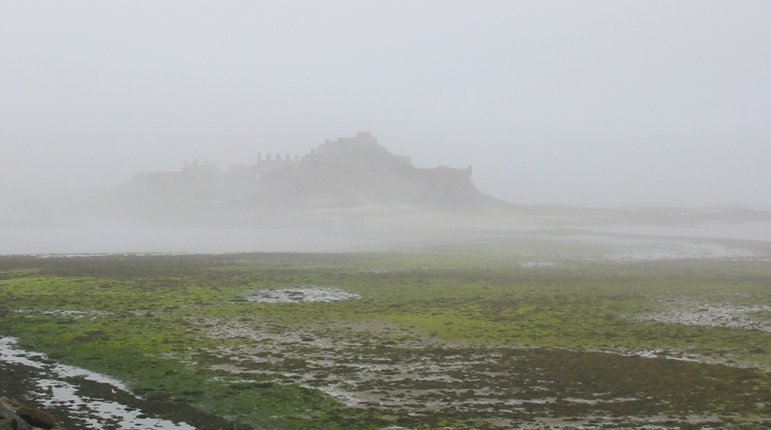 Elizabeth Castle, Jersey, in morning mist at low tide. Photo taken by Man vyi with Canon PowerShot A40 on 17/6/2005